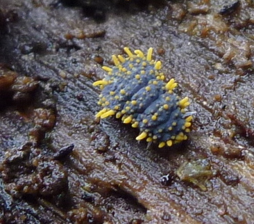 specimen from Fraser's Gully, Dunedin, New Zealand